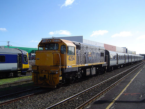 NZR Class DC - MAXX Train DC4254. Photographed by James Pole.